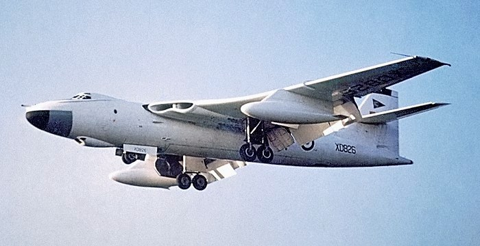 Valiant V bomber in 1961 at Filton Airfield, Filton, Bristol, England.